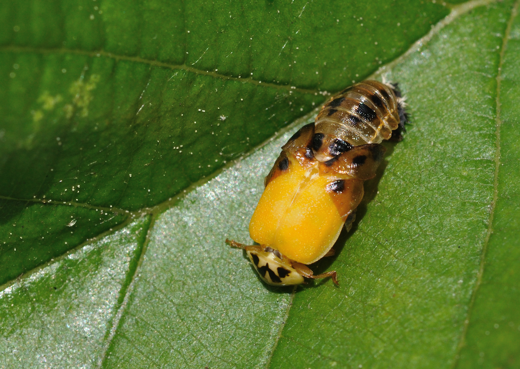 Asian Lady Beetle (Harmonia axyridis) moulting in Hamm, Germany.